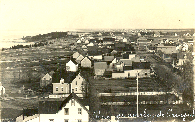 A panoramic view of Caraquet, New Brunswick, Canada.